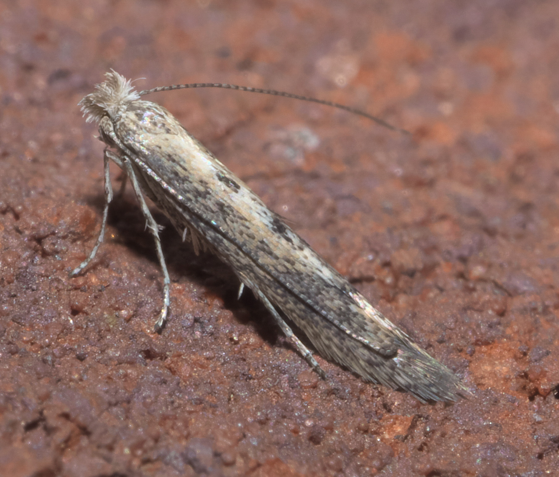 Bedellia somnulentella, morning-glory leaf miner, ID Confidence: 90